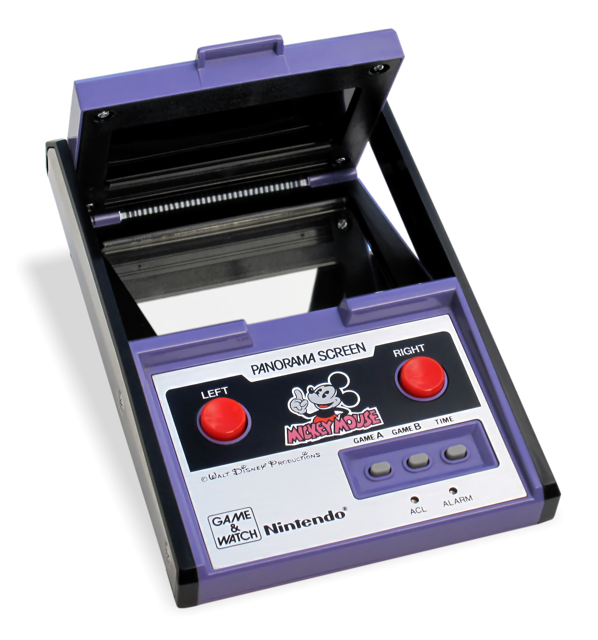 Mickey Mouse Nintendo Game & Watch handheld electronic game Family : Panorama Model : DC-95 Date : 02/1984